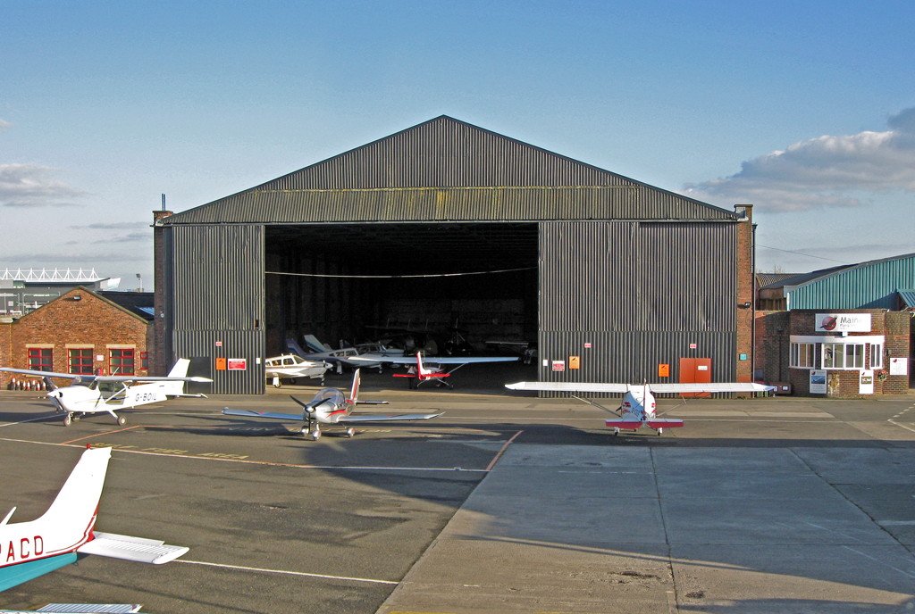 The main hangar at Barton Aerodrome completed in early 1930, shown in 2015